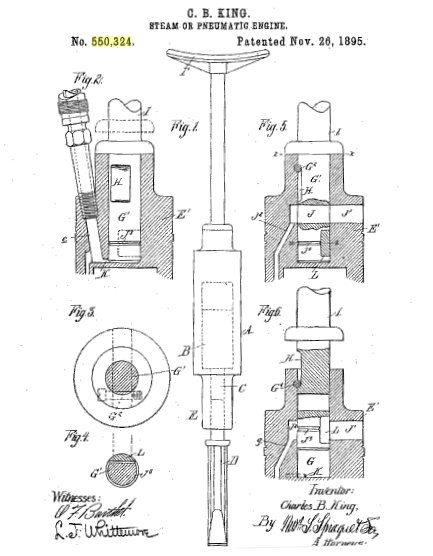 Steam or pneumatic engine ("jackhammer")